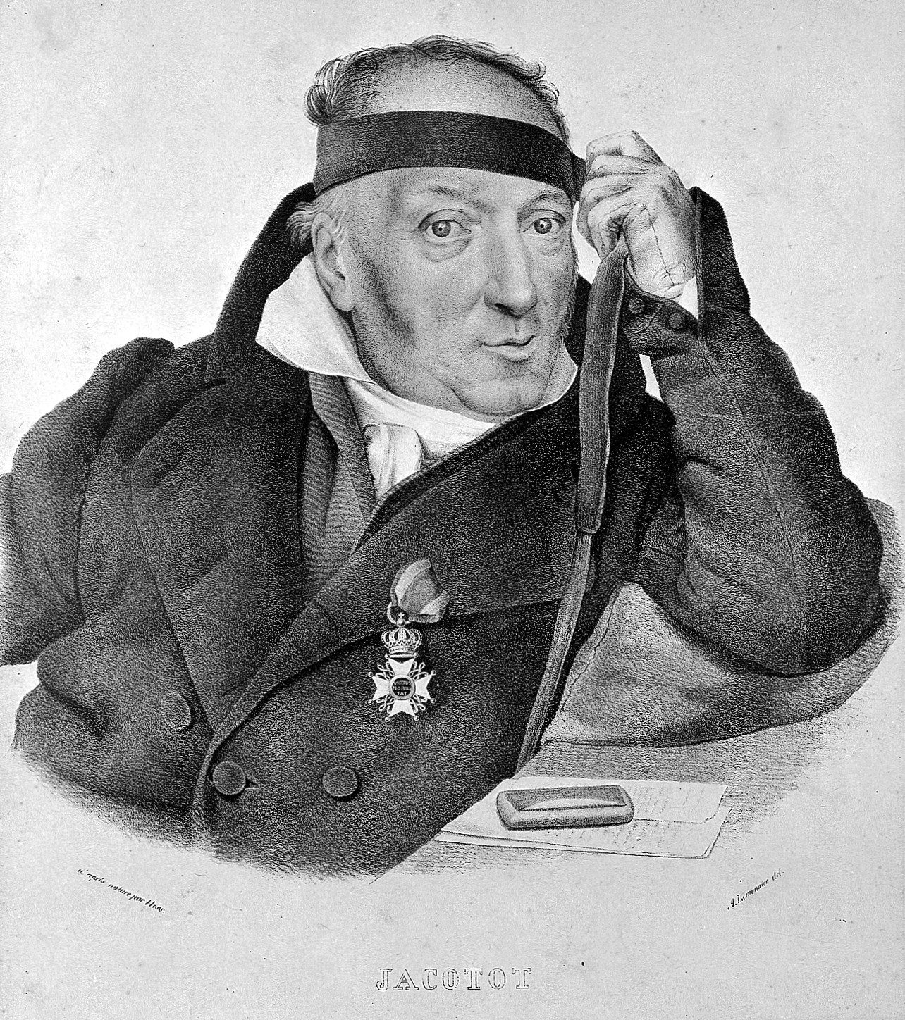 Joseph Jacotot. Lithograph by A. Lemonnier after Hess. Iconographic Collections Keywords: Joseph Jacotot; A. Lemonnier; Hess